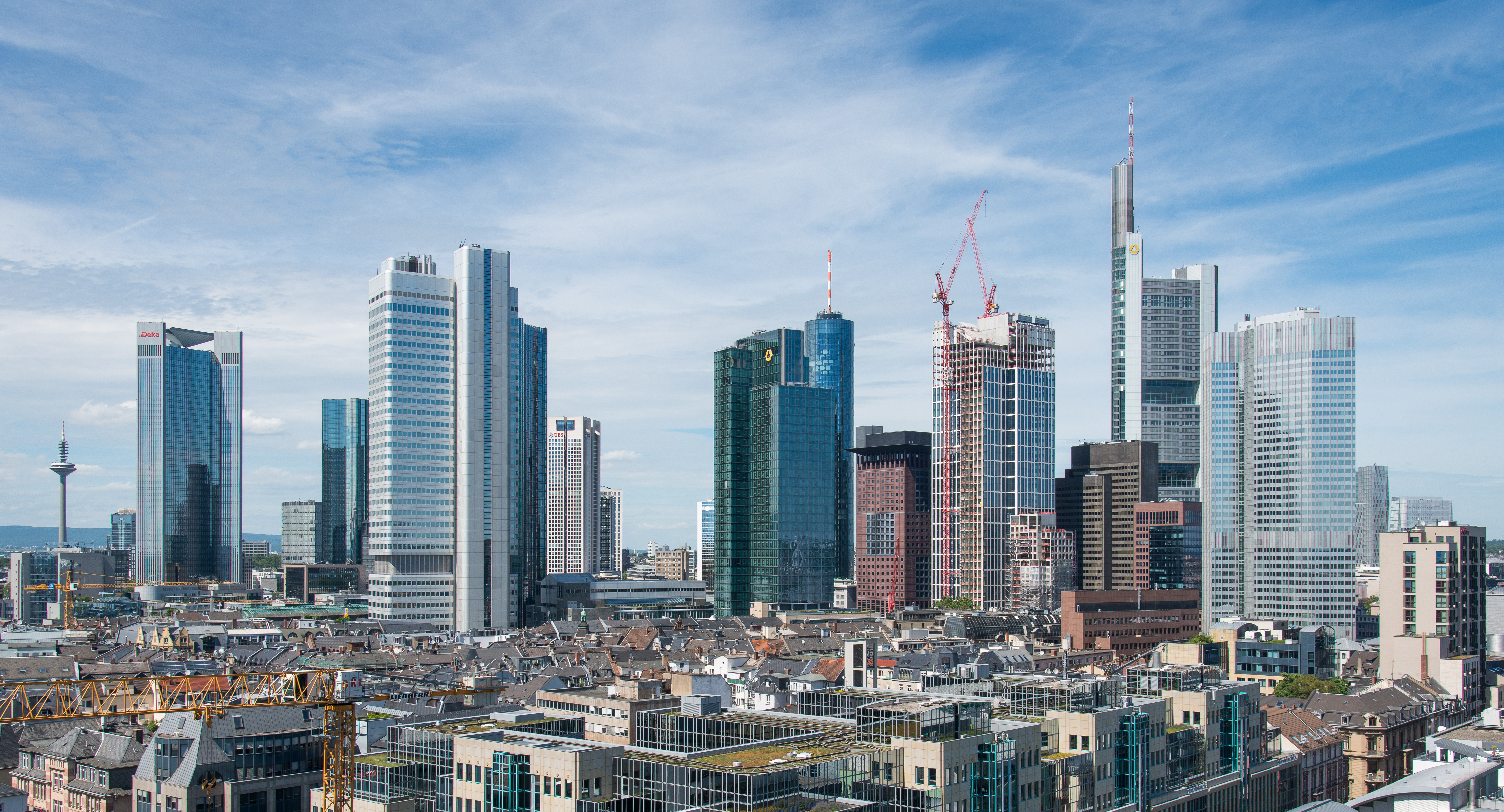 Frankfurt am Main, view from West over most of the central bank district's high-rises.